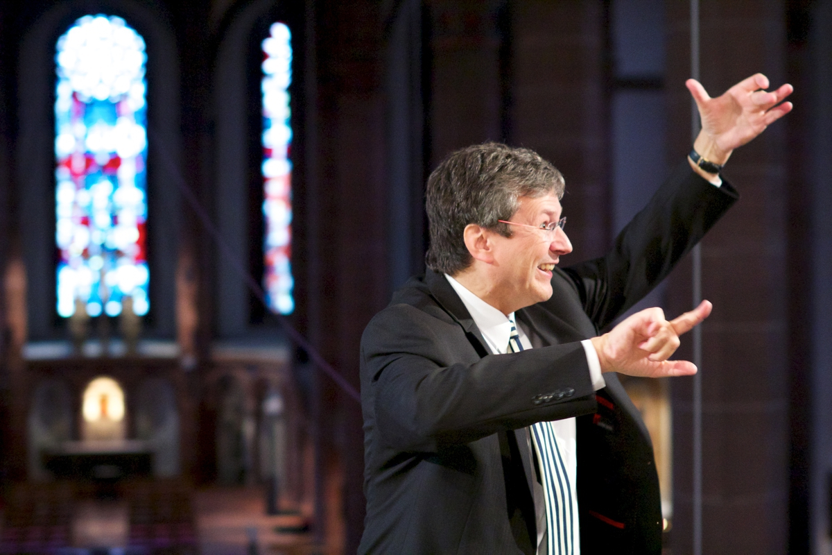 Gabriel Dessauer conducting the Choir of St. Bonifatius on Oct. 3. 2012